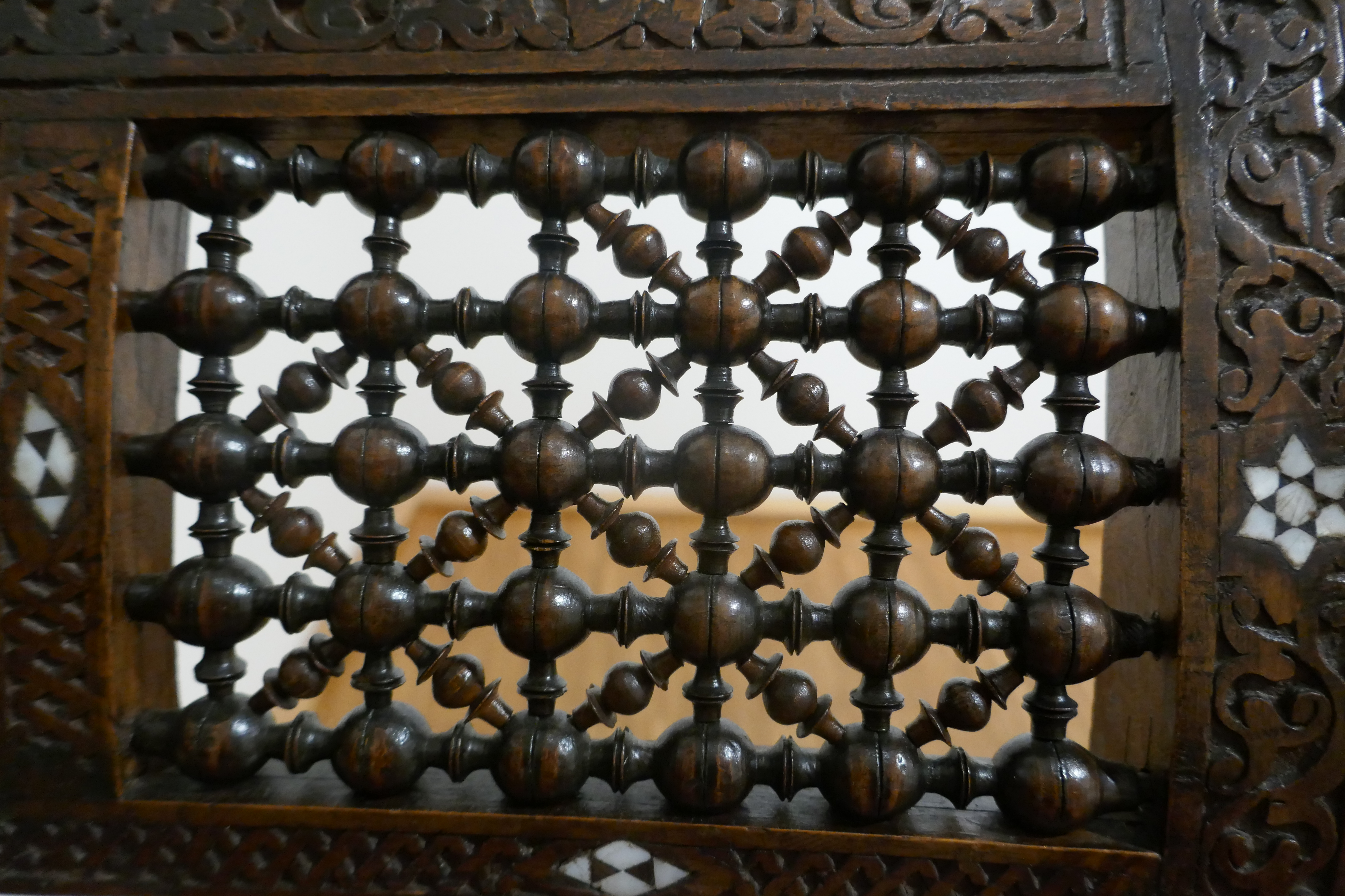 Mashrabiya work